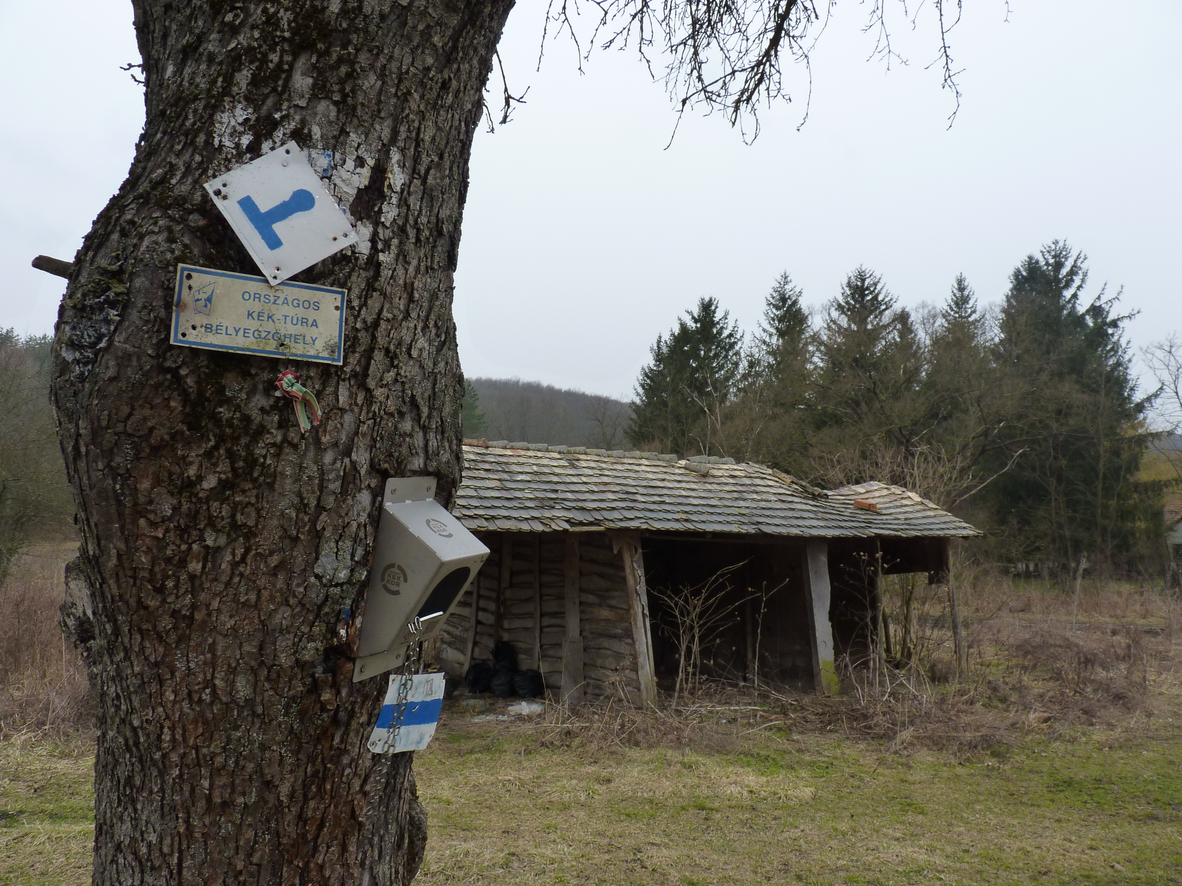 OKT stamp, Rozsnakpuszta, outside of Sirok